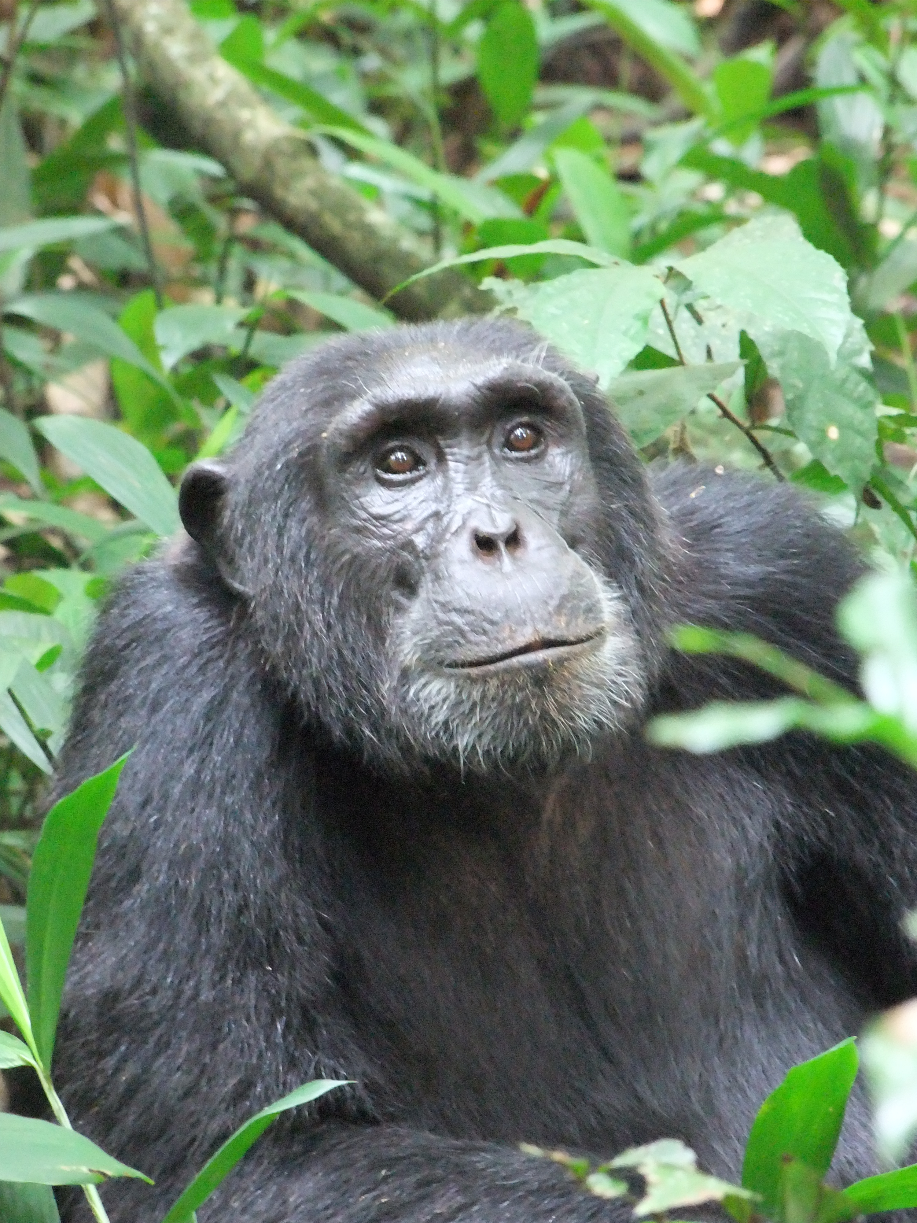 Chimp at Kibale National Park, Uganda